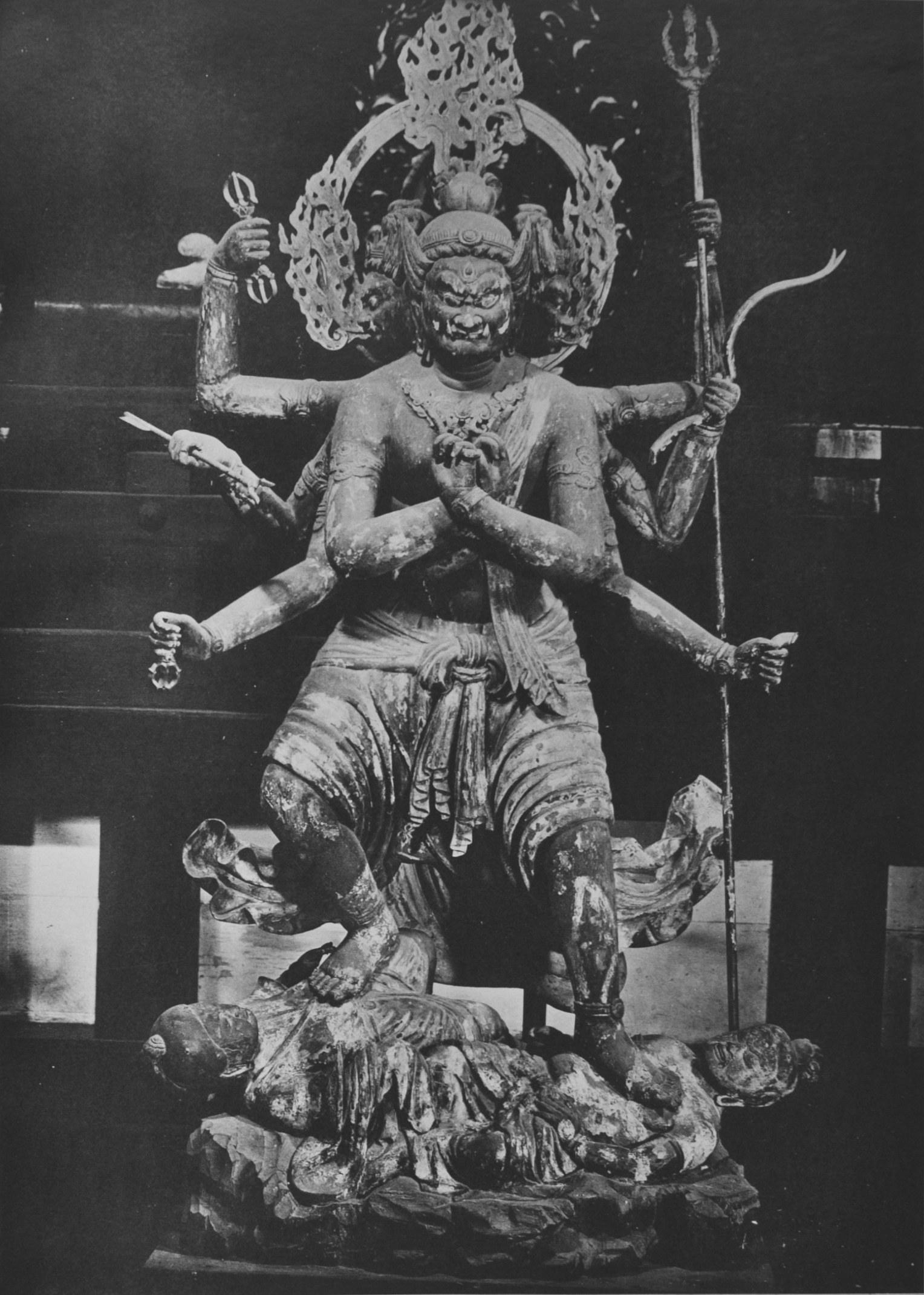 Kodo, Toji, Kyoto, Japan